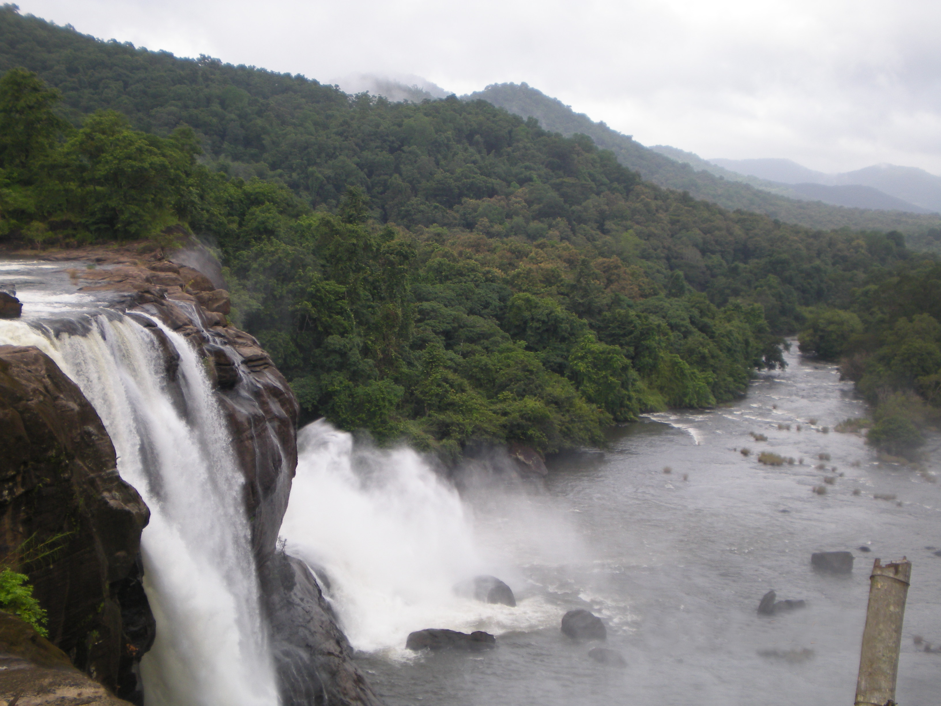 view of Athirappilly Falls from top